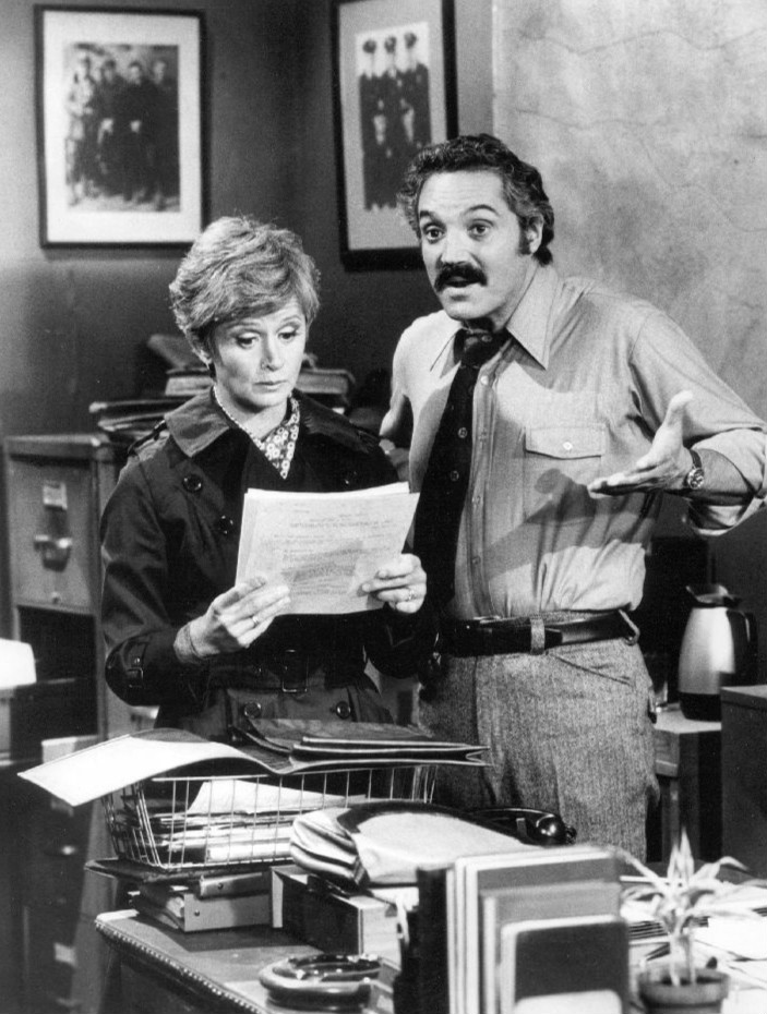 Publicity photo of Hal Linden and Barbara Barrie as Barney and Liz Miller from the television program Barney Miller.